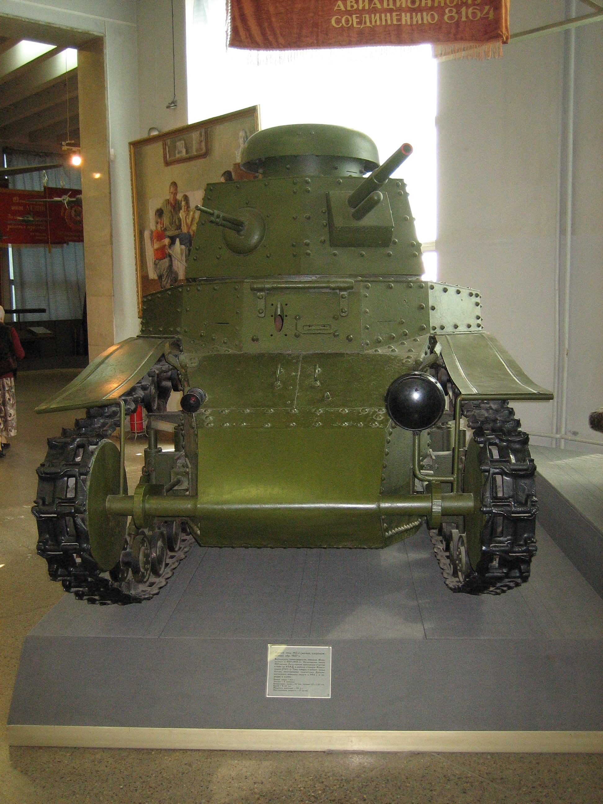 Soviet tank T-18, displayed in Moscow Military Museum. Photo taken on 19 July, 2007. Source: Photo by me, User:Saiga20K.